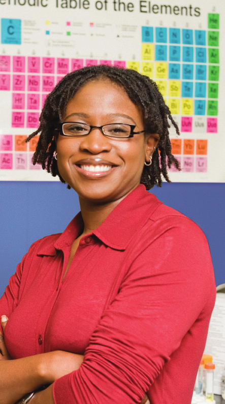 Omolola (“Lola”) Eniola-Adefeso, a chemical engineer at the University of Michigan in Ann Arbor, is developing a way to deliver heart disease medicines right to the places they’re needed—the blood vessels near the heart—and to do so without surgery.